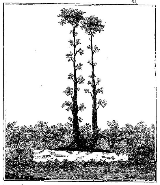 Engraving based upon John Thorpe's drawing of the Coffin Stone, Kent, first published in his 1788 book Custumale Roffense